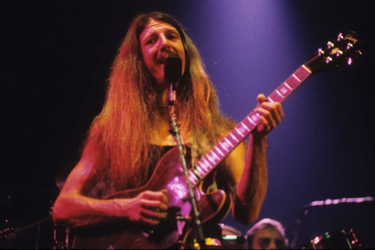 Patrick Simmons of the Doobie Bros. Band